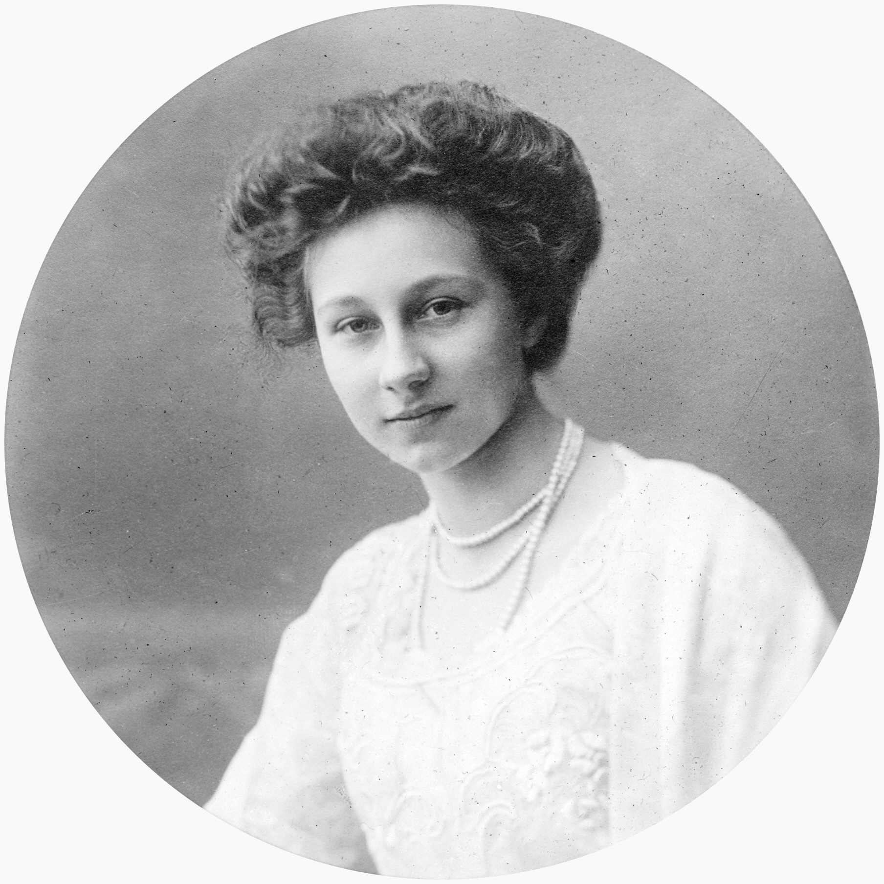 Princess Victoria Louise of Prussia (1892–1980), later Duchess of Brunswick.